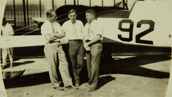 Catalog #: 02-W-00144 Period photograph, c. 1930s (L–R) Jimmy Doolittle, Jimmy Wedell and Harry Palmerston Williams Repository: San Diego Air and Space Museum Archive